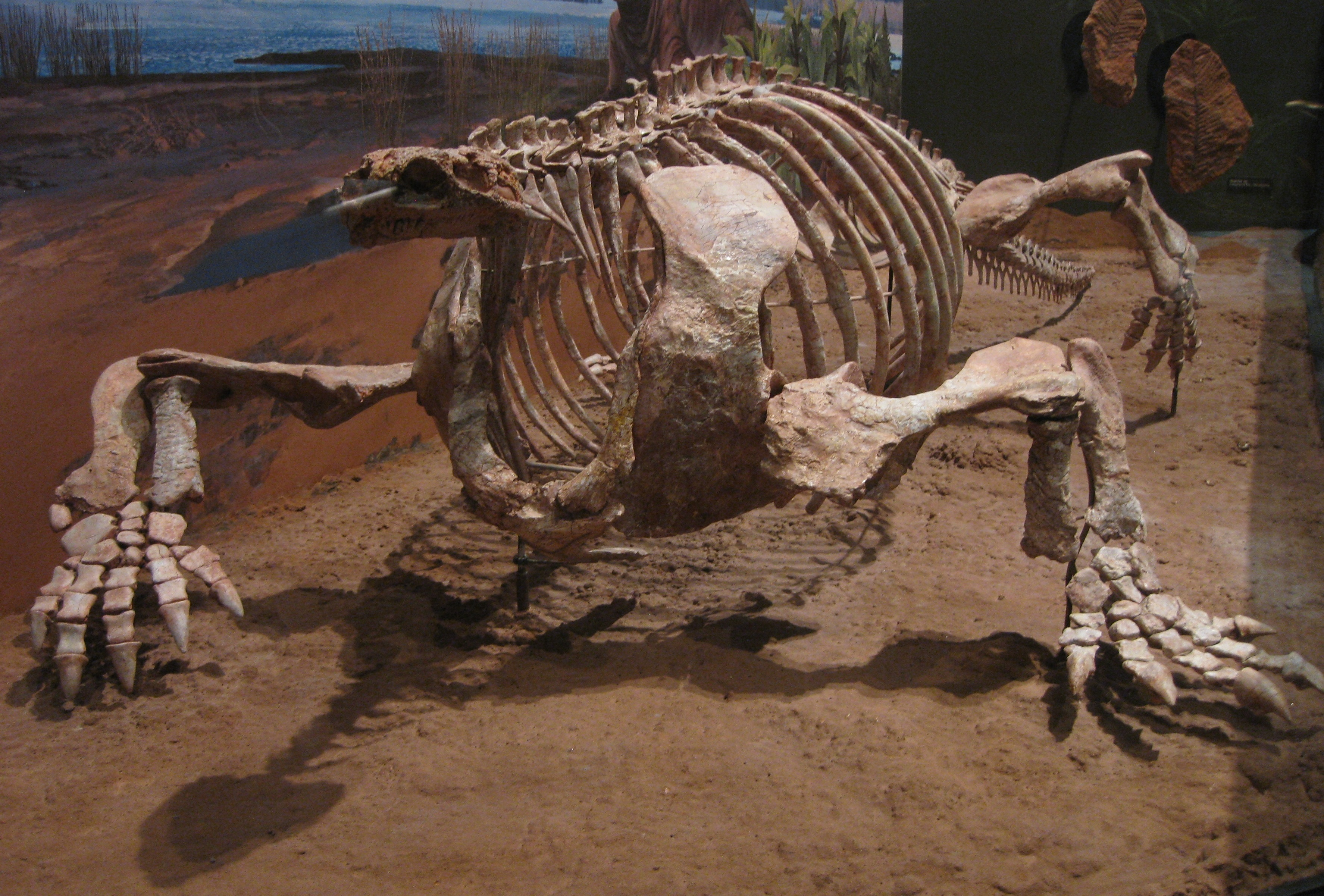 Specimen of Cotylorhynchus romeria from Norman, Oklahoma